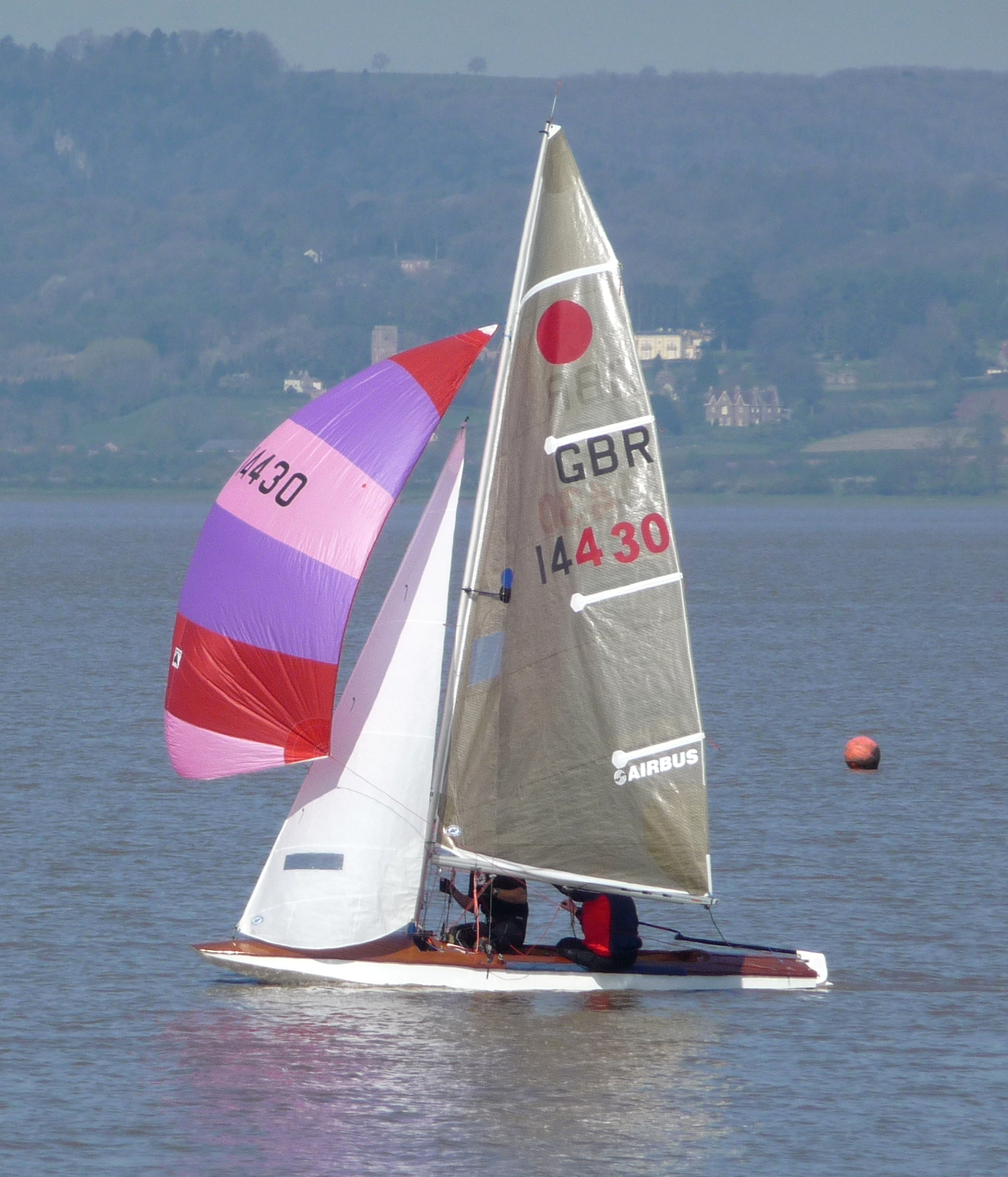 A Fireball sailing dinghy.